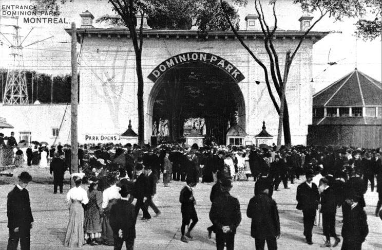 Print, Entrance to Dominion Park, Montreal, QC, about 1910, Anonymous, Coloured ink on paper mounted on card - Collotype - 8 x 13 cm